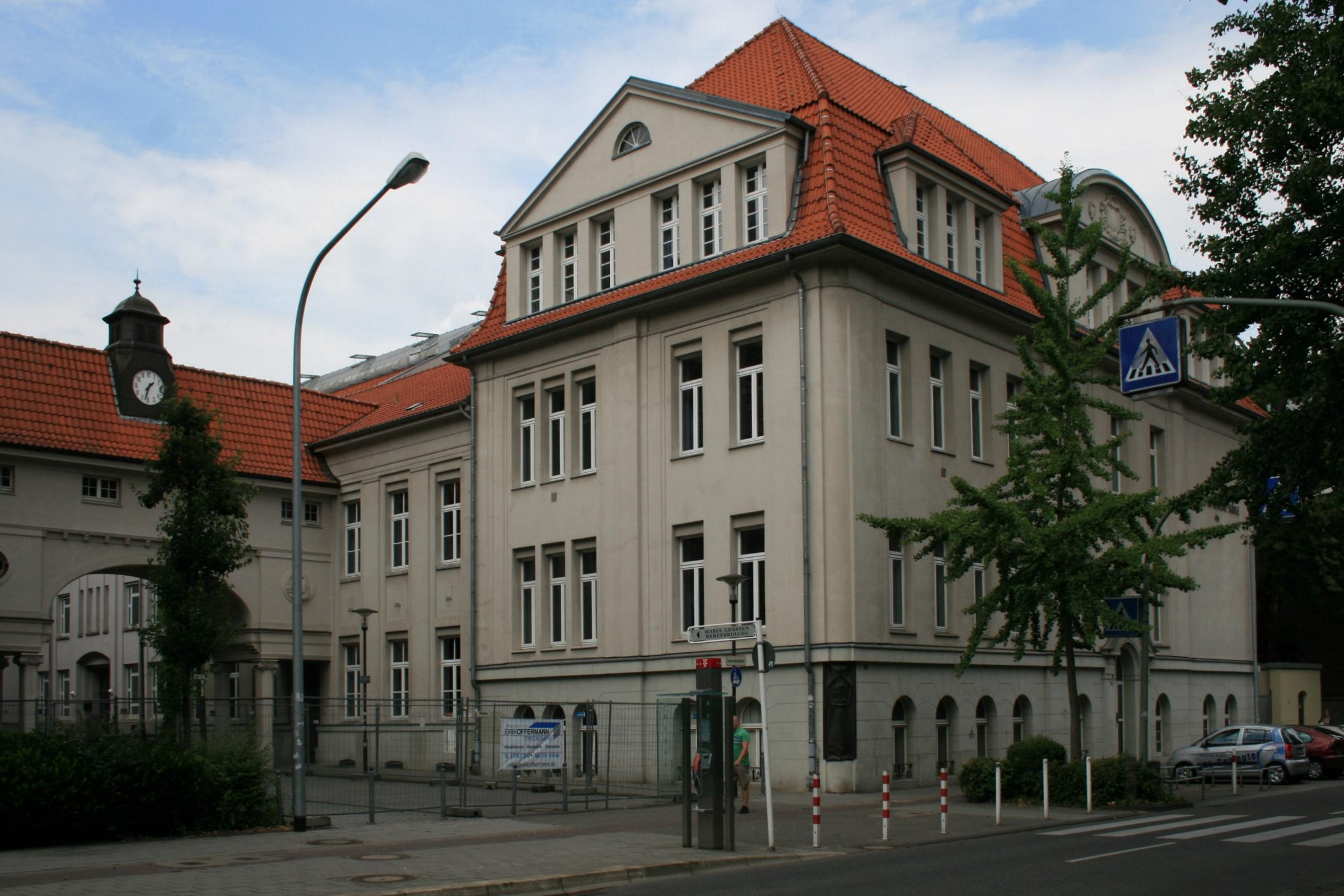 Cultural heritage monument No. W 012 in Mönchengladbach